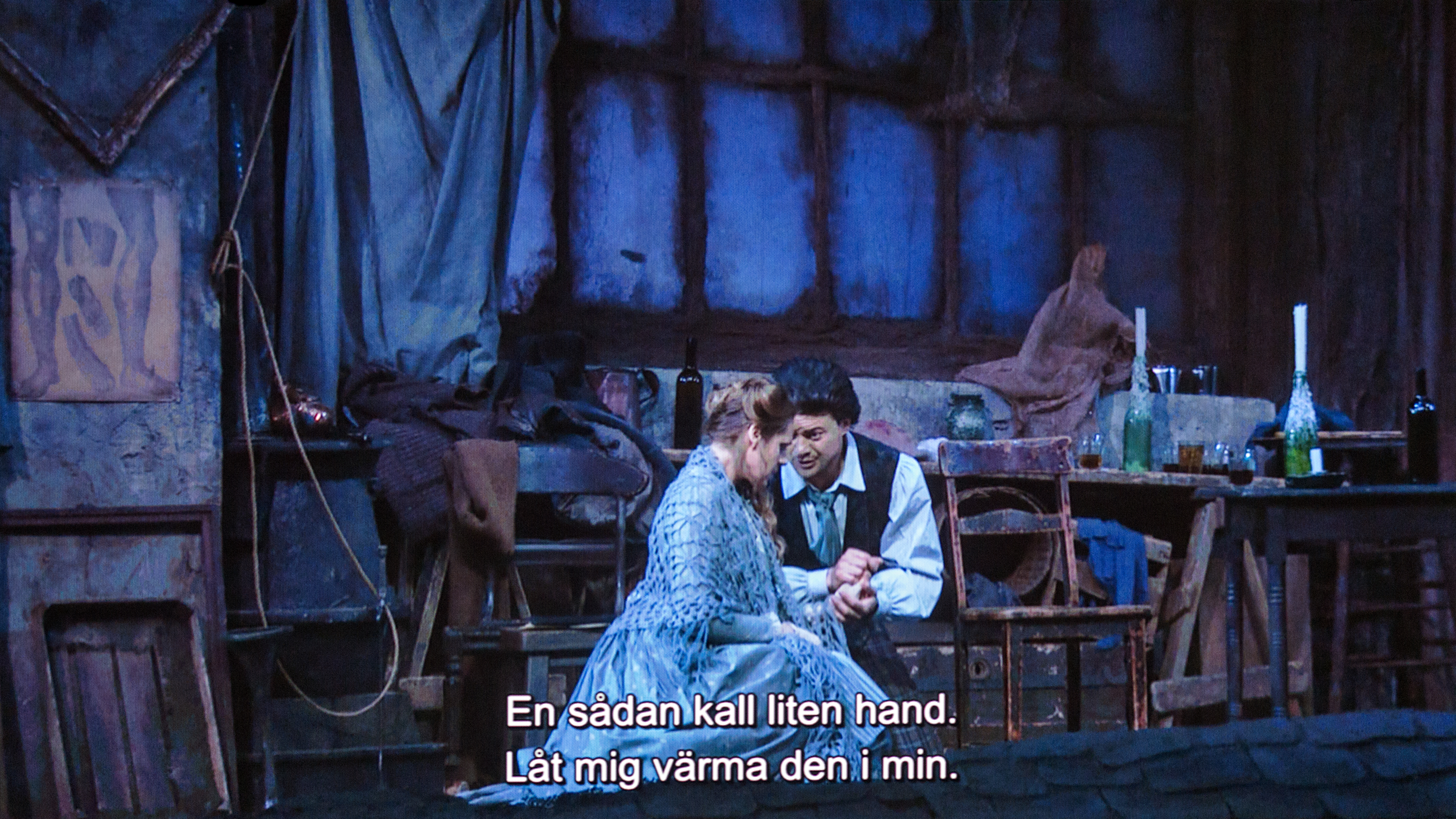 La Bohème from the Metropolitan Opera April 2014